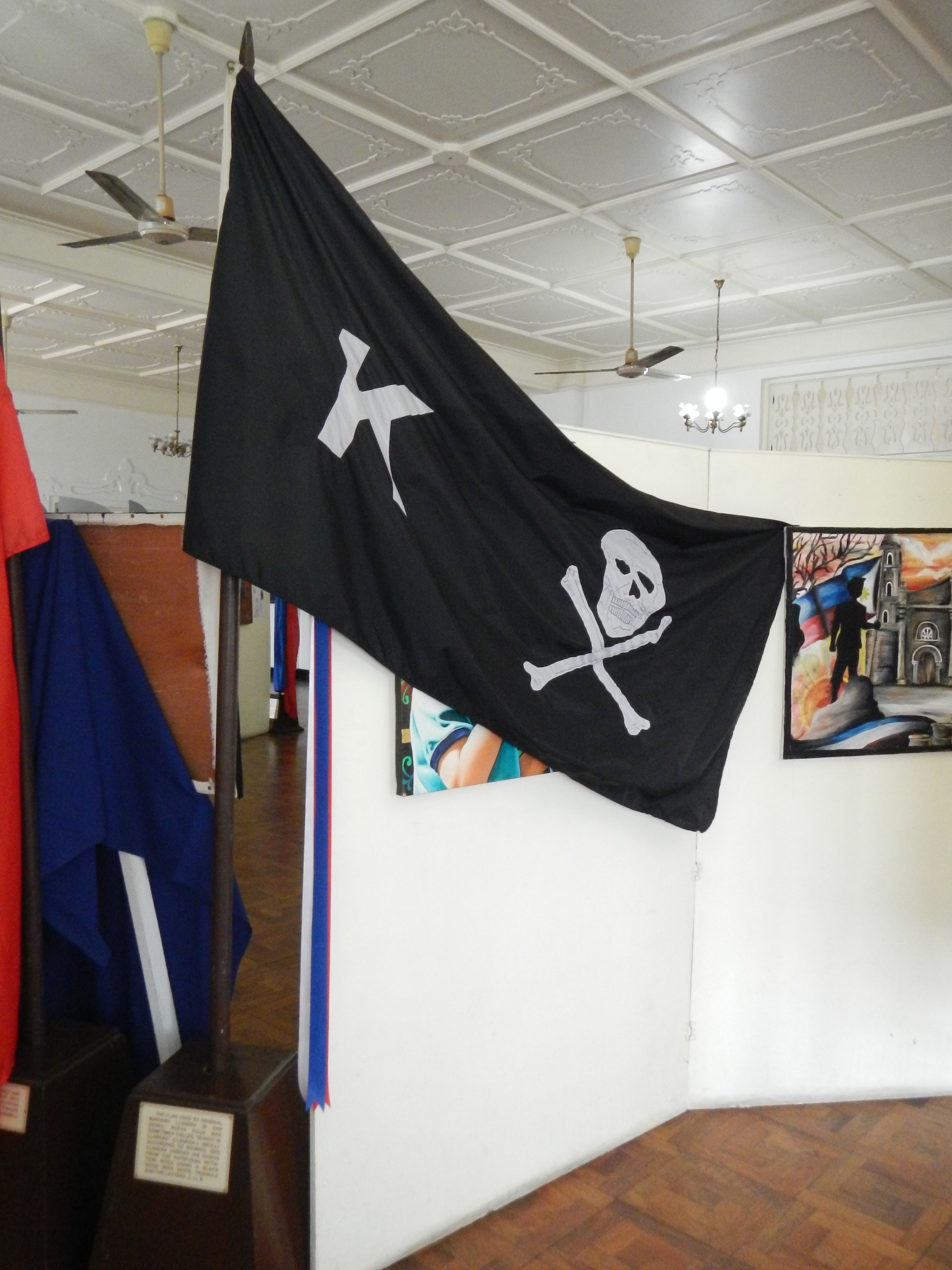 Casa Real de Malolos, Built in 1580,residence and office of the Gobernadorcillo of Malolos until 1673.It was used as Casa Tribunal of Pueblo de Barasoain in 1859.During American Occupation of Malolos,it was used again as the Municipal Hall of unified towns of Malolos,Barasoain and Sta Isabel in 1903-1940,Bulacan High School Annex in 1941.During Japanese period,served as office of Japanese Chamber of Commerce (1941–1944),in 1945 it became headquarters of Auxiliary Unit of US Army.In 1946 served as Temporary Provincial Capitol of Bulacan because the province capitol was damaged during World War II.In 1947,Bulacan Trade School,1948 a Branch of Philippine National Bank.And in 1950,Malolos Postal Office.Today it is a Museum maintained by the National Historical Institute containing artifacts and memorabilia holding relics of the 21 Women of Malolos. [1]